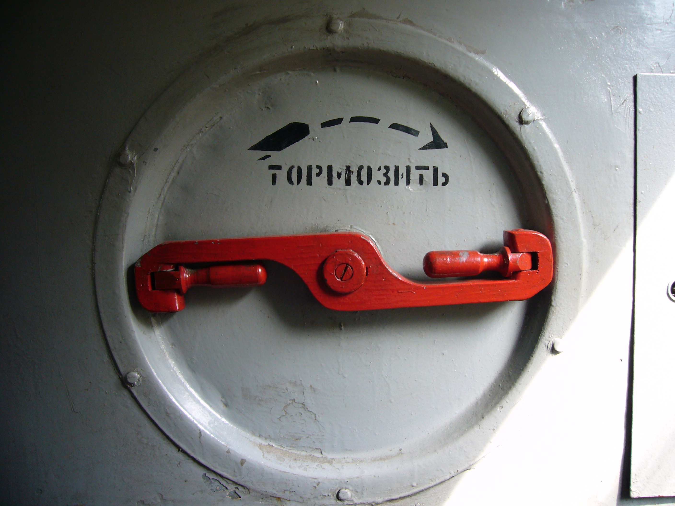 Hand brake wheel in a Russian rail car (Moscow-Eupatoria train)